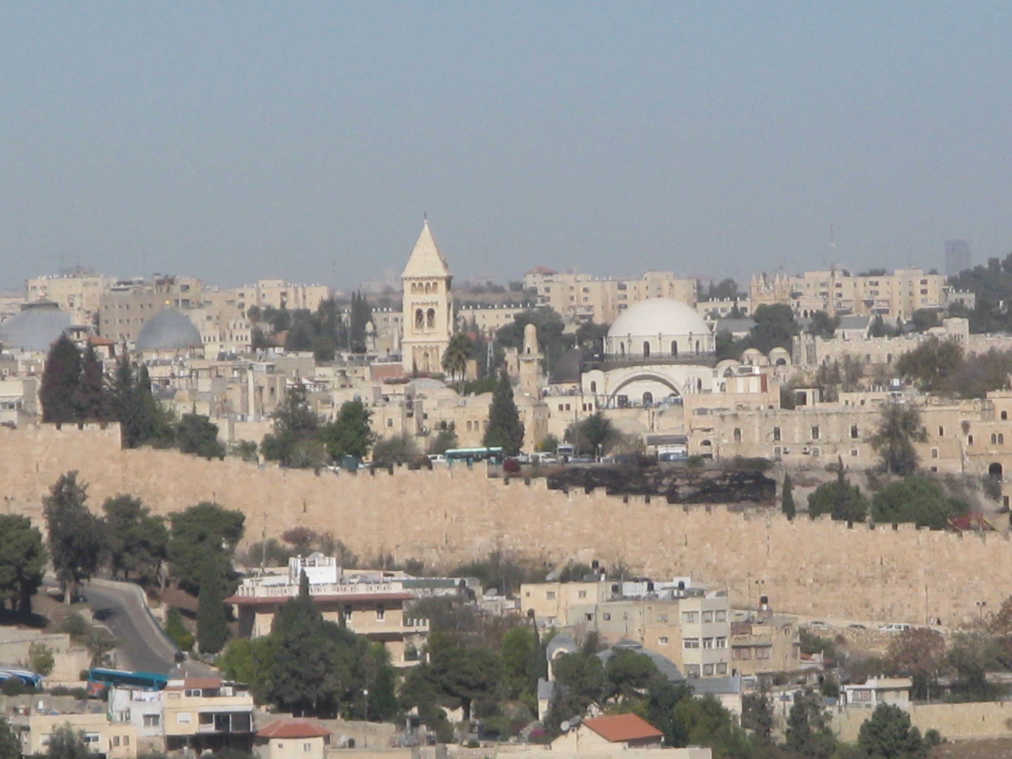 Hurva Synagogue exterior, Holy Sepulchre - Dome exterior, Lutheran Church of the Redeemer - Exterior, Old City Walls. Jerusalem